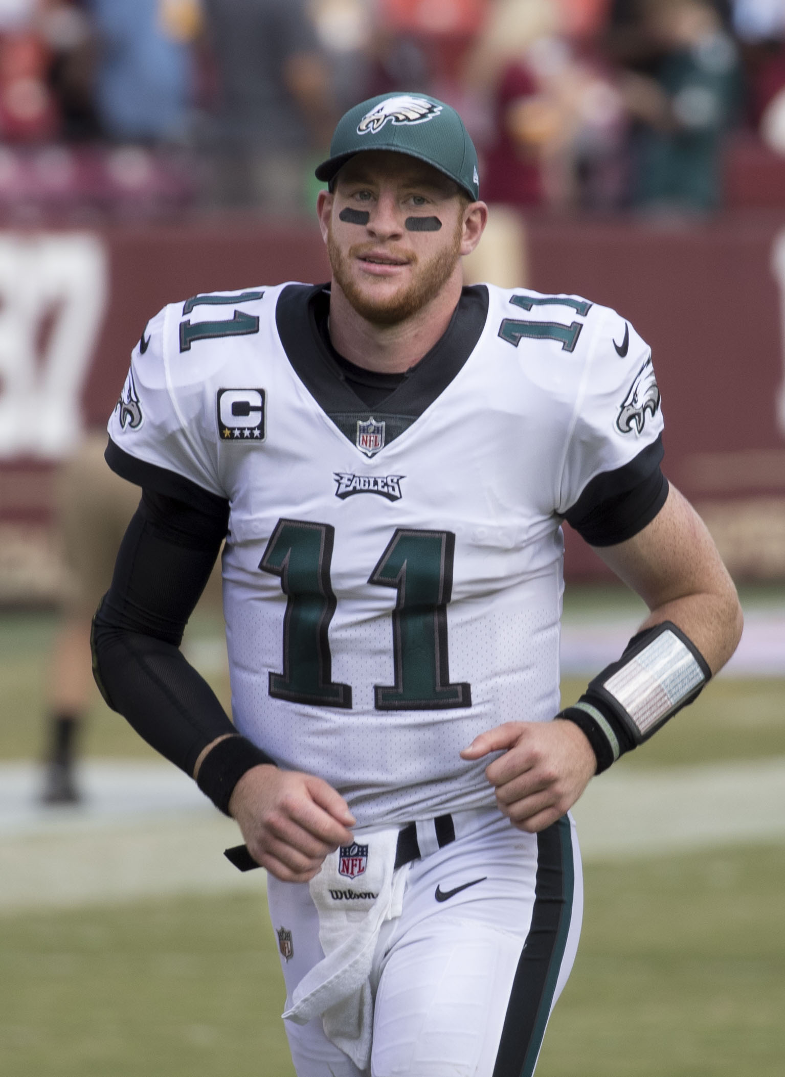 Quarterback Carson Wentz of the Philadelphia Eagles runs off the field following the Eagles 30-17 win over the Washington Redskins at FedExField on September 10, 2017 in Landover, Maryland.